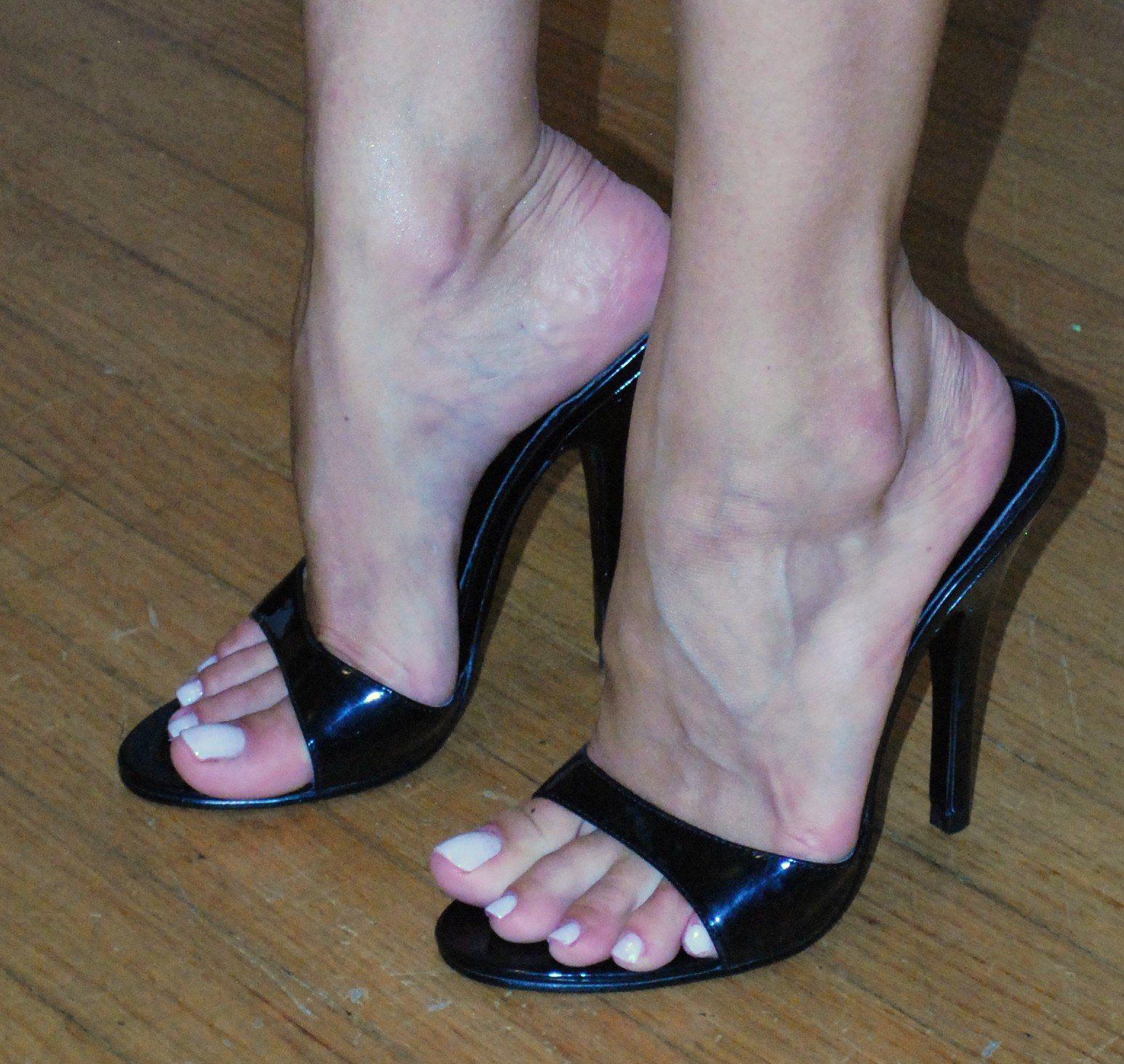 Heels and feet